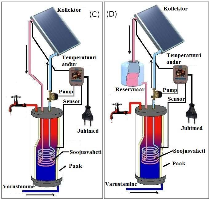 Solar collector works